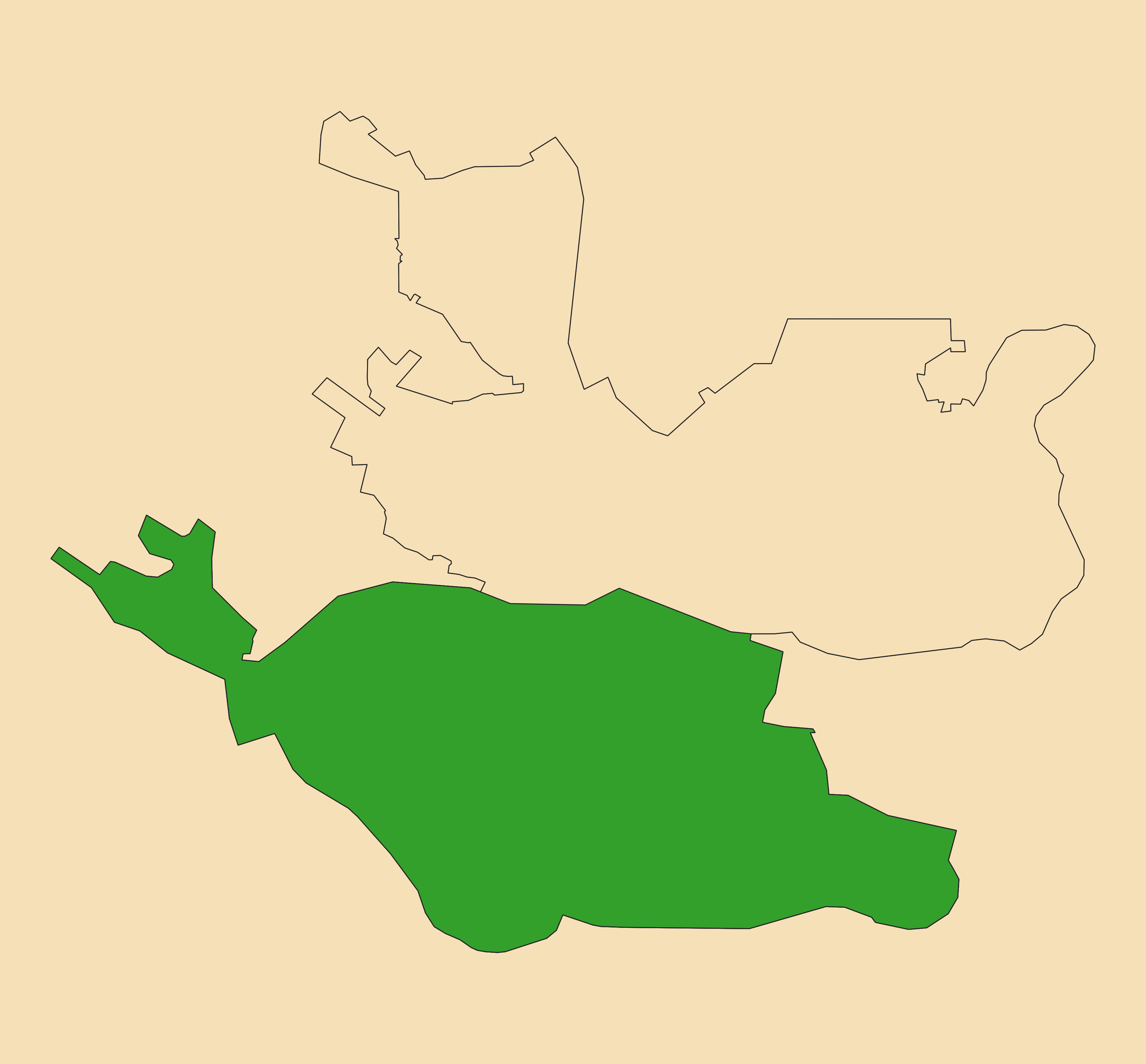 Location of the electoral division of Araluen (dark green) in the Alice Springs area at the 2020 Northern Territory election